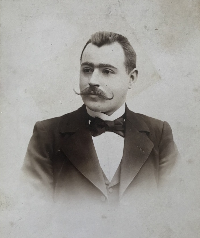 Detailf of portrait of Waclaw Ludwik Kludkowski (1871-?), made by Boleslaw Sztejner.